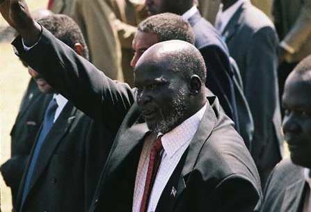 Original caption states, "Former Southern Sudan leader John Garang."